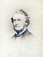 Archibald McAllister, US Representative from Pennsylvania